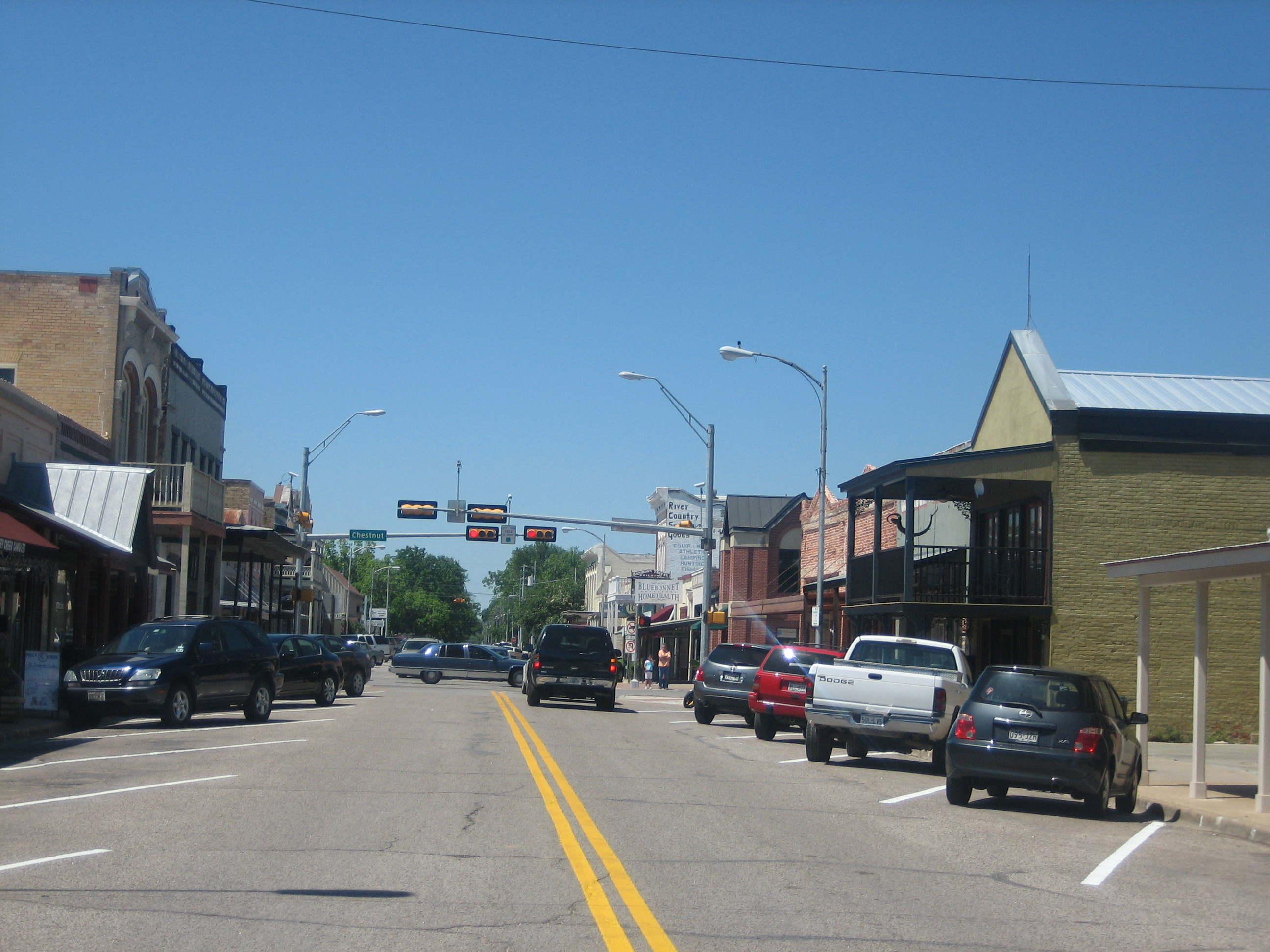 I took photo on May 21, 2009.Billy Hathorn (talk) 02:03, 31 May 2009 (UTC)